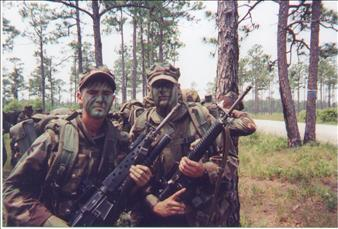 Tony Sledd and Mike Zerby, USMC